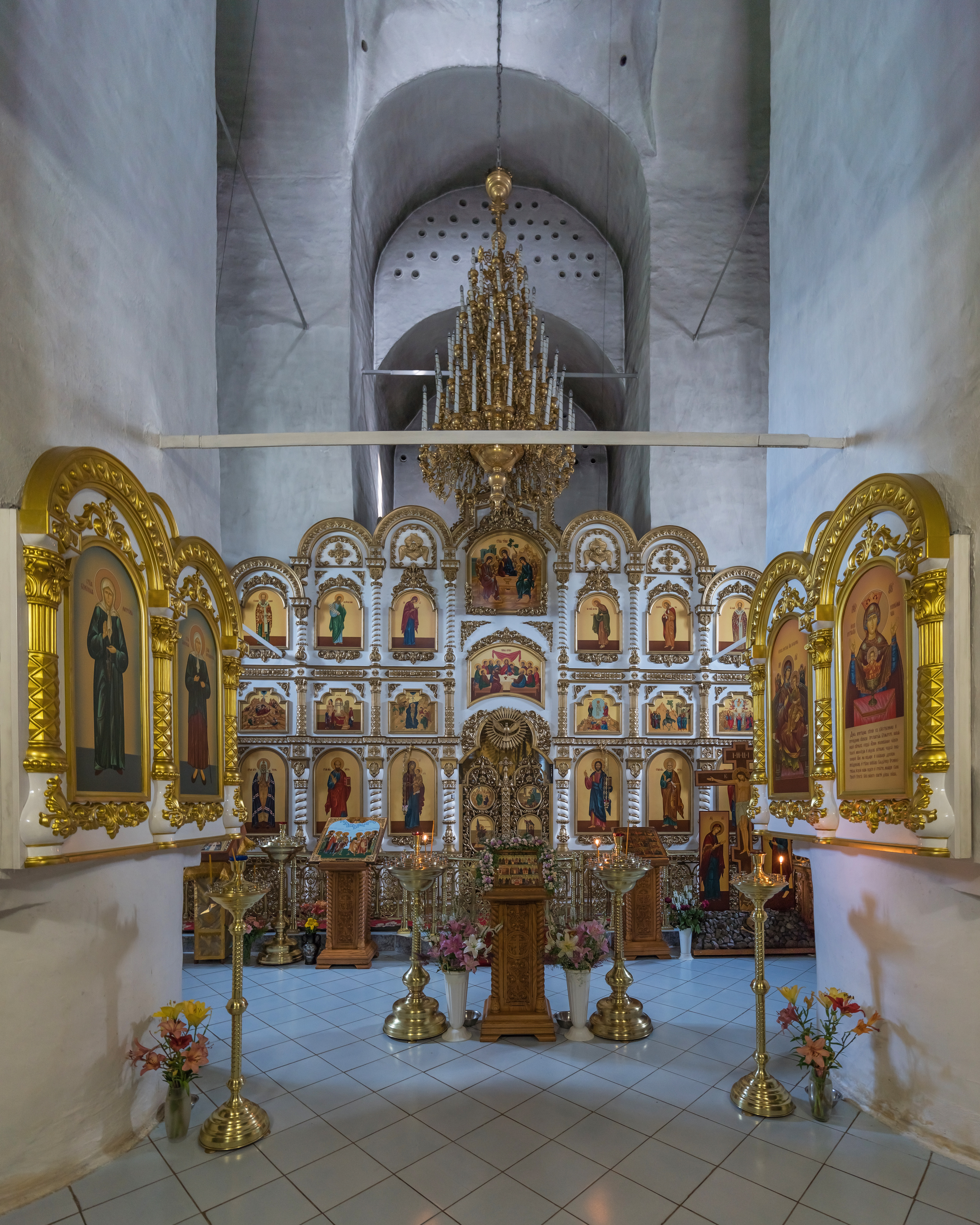 Interior of Saints Peter and Paul Church «s Buya» in Pskov, Russia